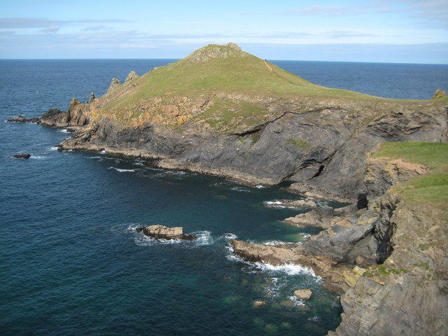 The Rumps The Rumps viewed here from the South West Coast Path was the site of an Iron Age fort.